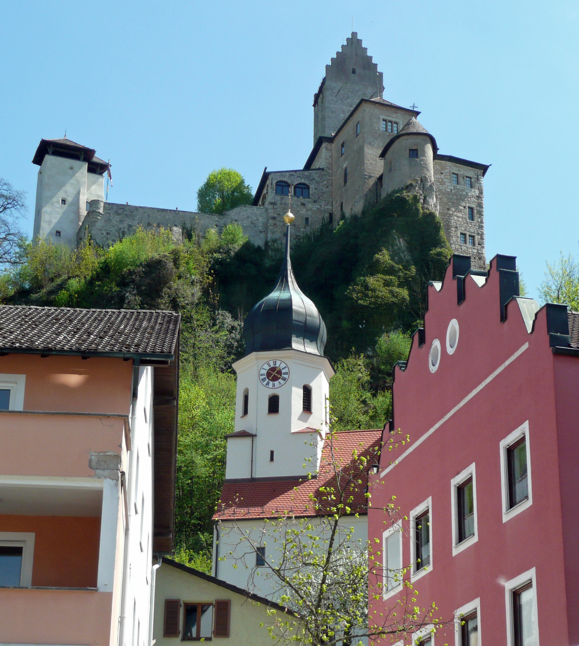 Castle and Mariä Himmelfahrt church in Kipfenberg seen from the market place (NW). This is a photograph of an architectural monument. This is a photograph of an architectural monument.